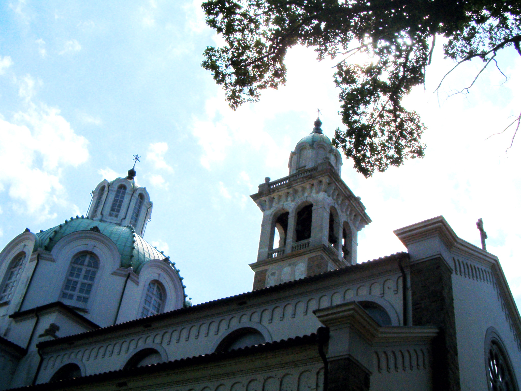 Barbana isle, Grado Lagoon, Grado (Province of Gorizia), Italy Il santuario